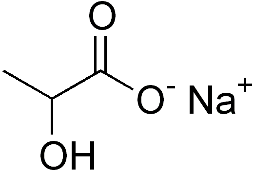 chemical structure of sodium lactate